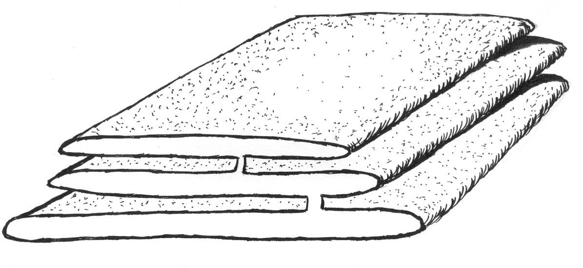 Smooth Endoplasmic Reticulum with cisternae and canniculi